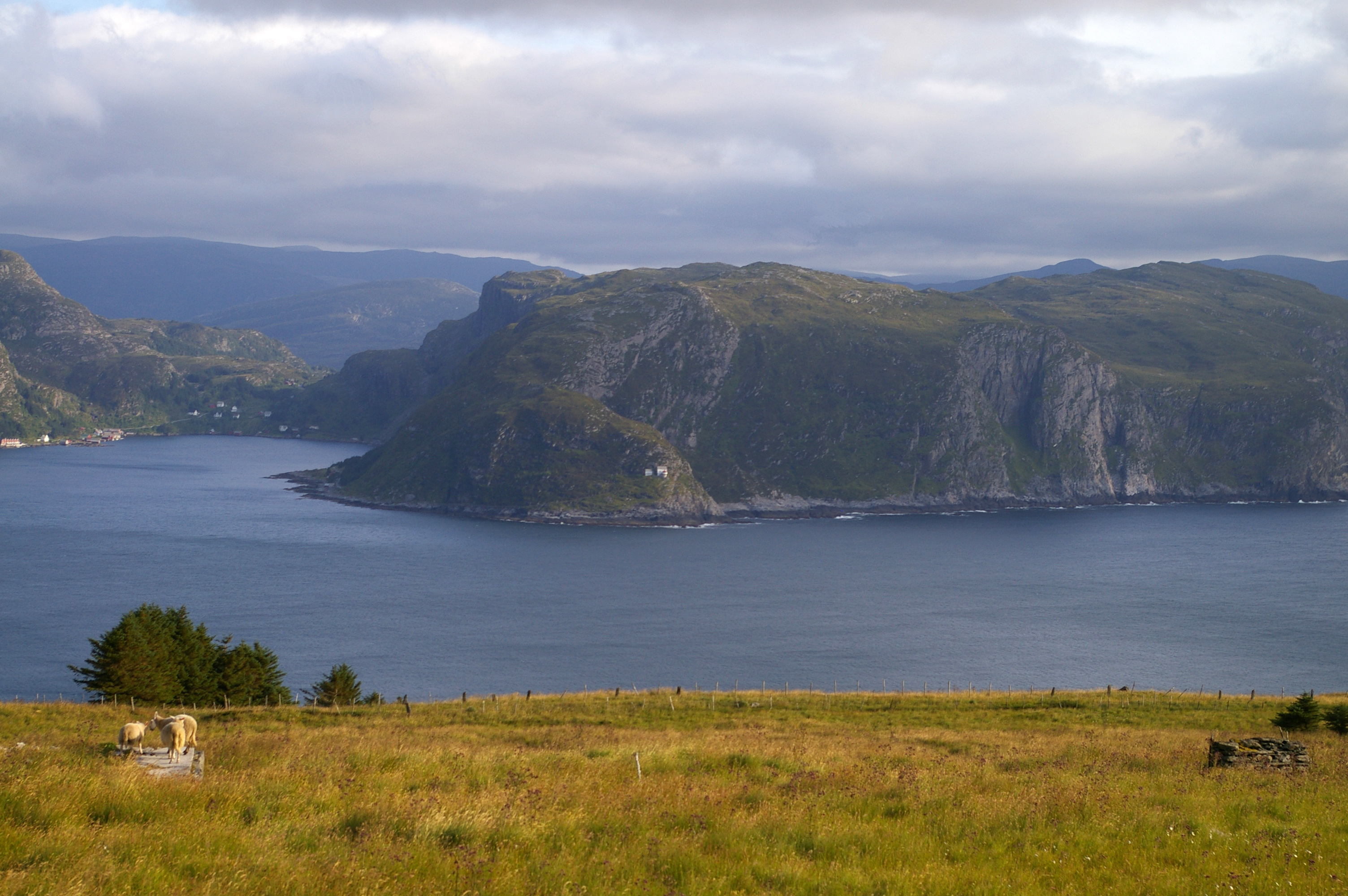 Hendanes Lighthouse at Vågsøy in Sogn og Fjordane, Norway; Torskangerpollen at left